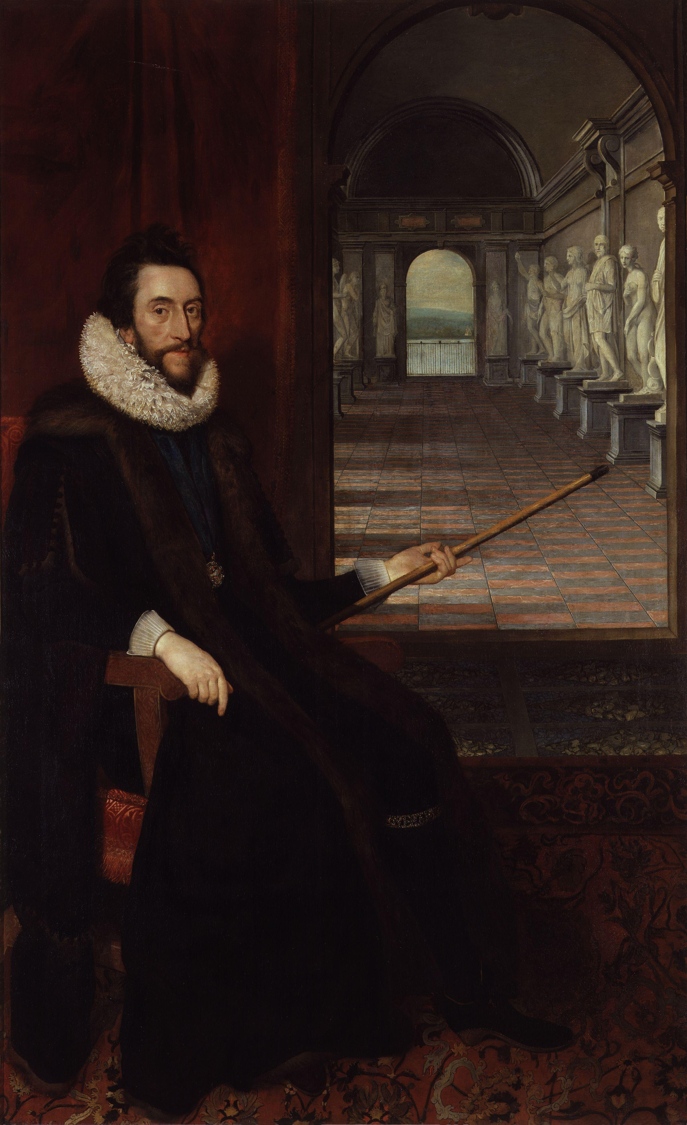 Thomas Howard, 2nd Earl of Arundel and Surrey, by Daniel Mytens (died 1647). All images in this batch have been confirmed as author died before 1939 according to the official death date listed by the NPG.